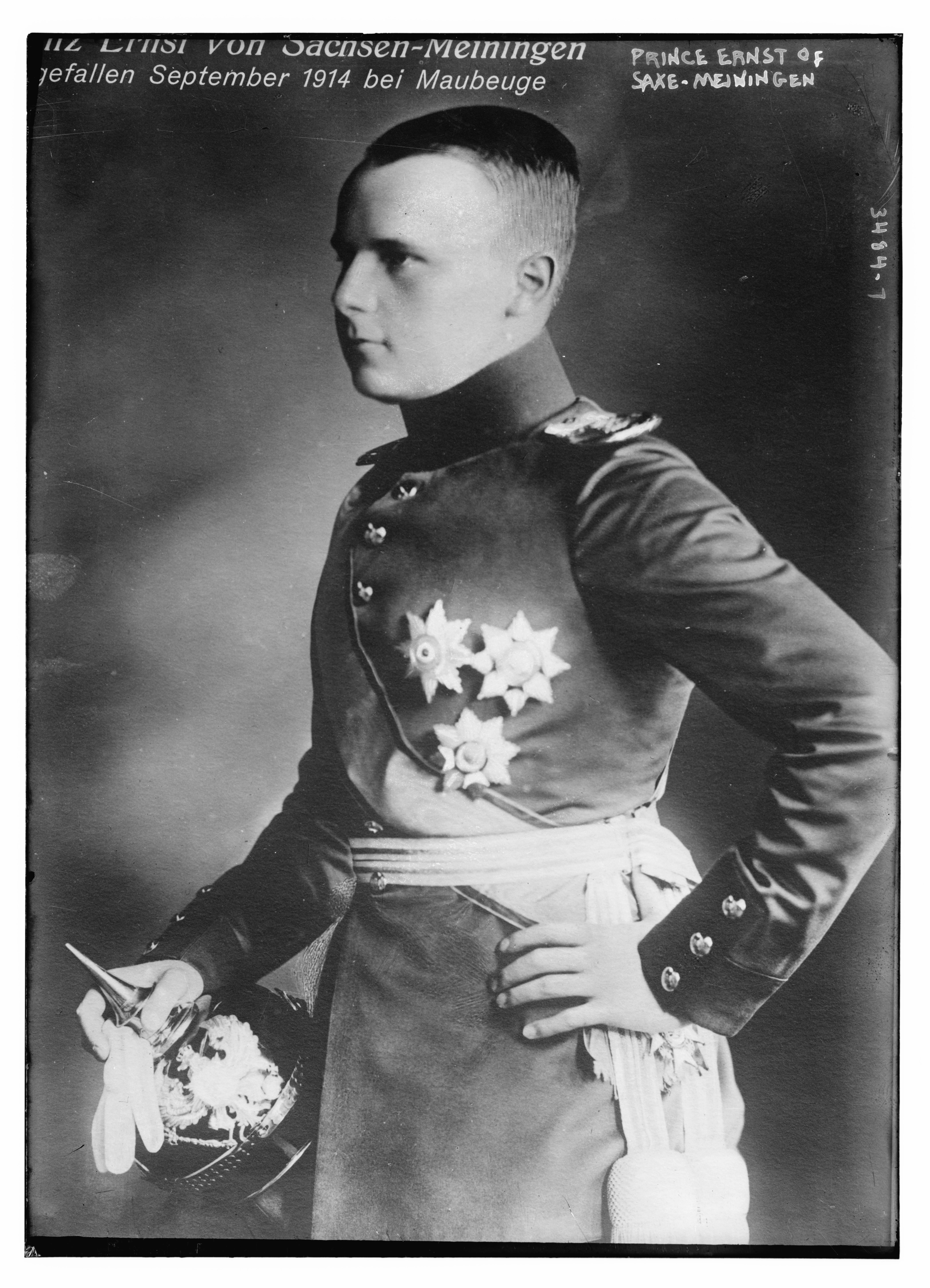 Title: Prince Ernst of Saxe-Meiningen Abstract/medium: 1 negative : glass ; 5 x 7 in. or smaller.